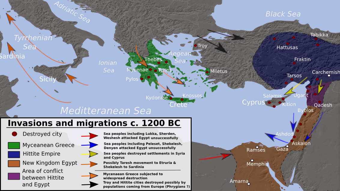 Migrations, invasions and destructions during the end of the Bronze Age (c. 1200 BC), Topography taken from DEMIS Mapserver, which are public domain, other wise self-made.